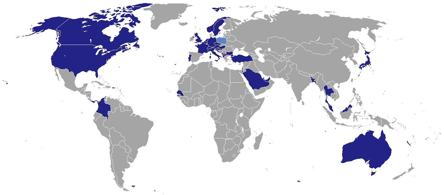 Map of diplomatic missions of Kosovo